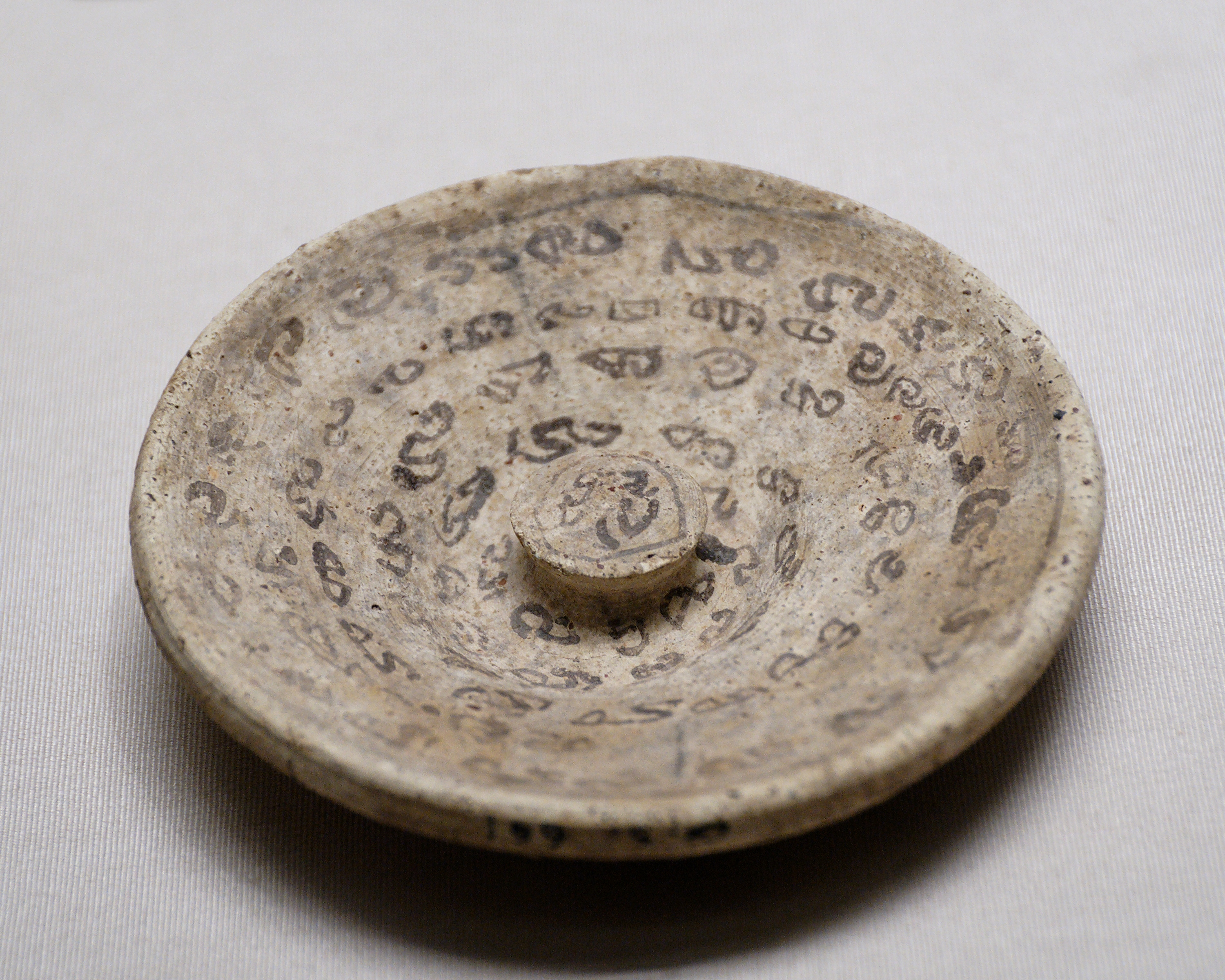 Lid with an Aramaic magical script.